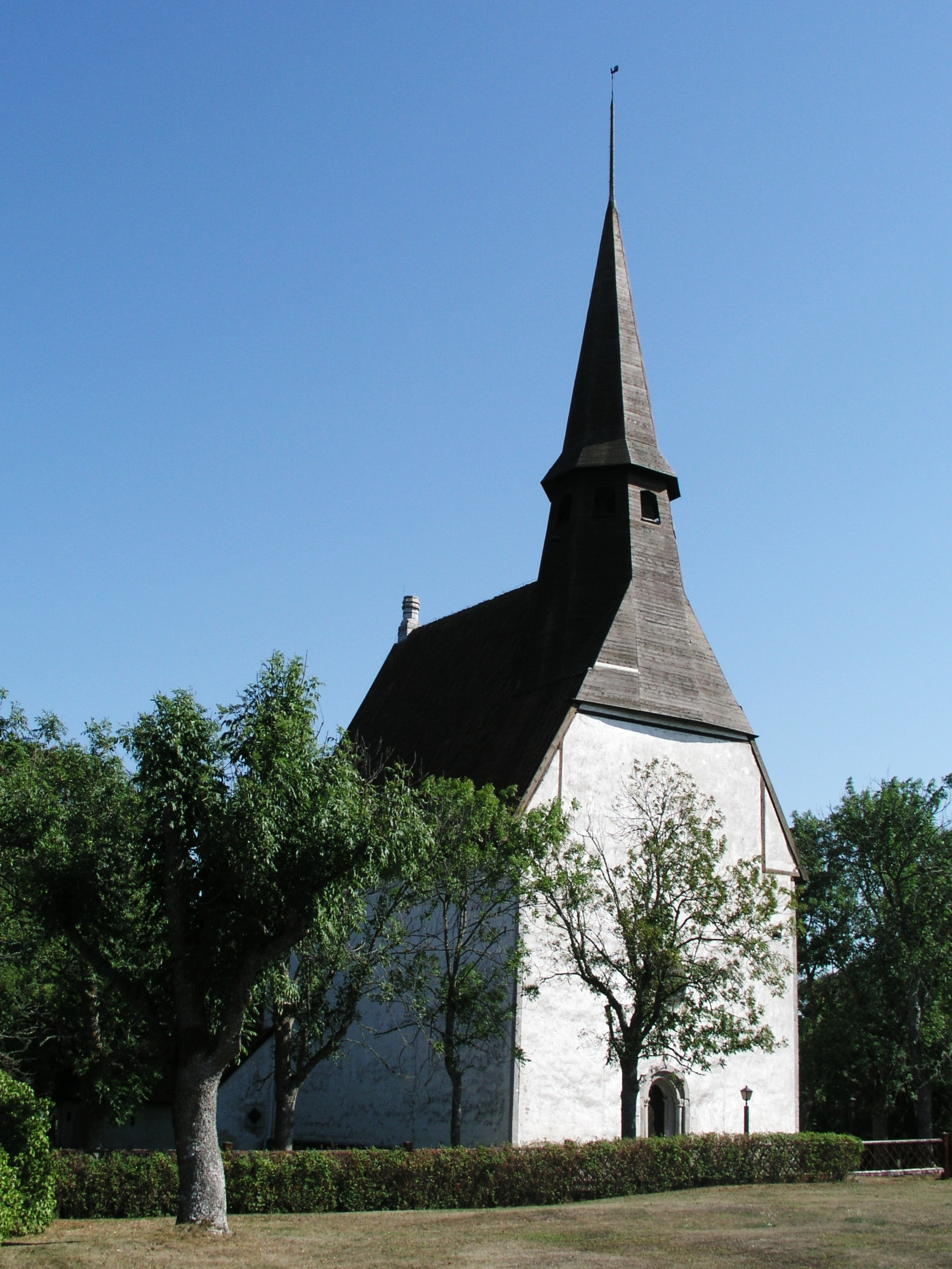 Kräklingbo church, Diocese of Visby, Gotland, Sweden.